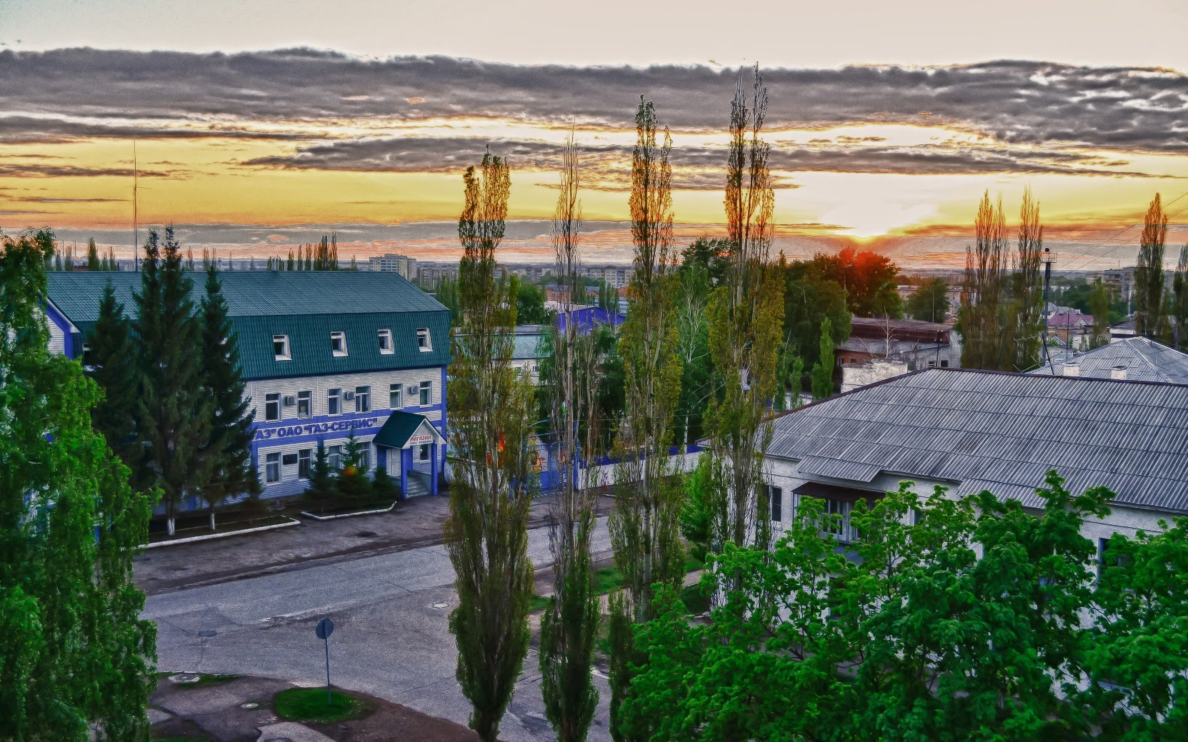 The crossroad of streets Stakhanovskaya and Mira, Ishimbay, Bashkortostan